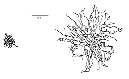 A size comparison between midget and parasol cell dendritic trees